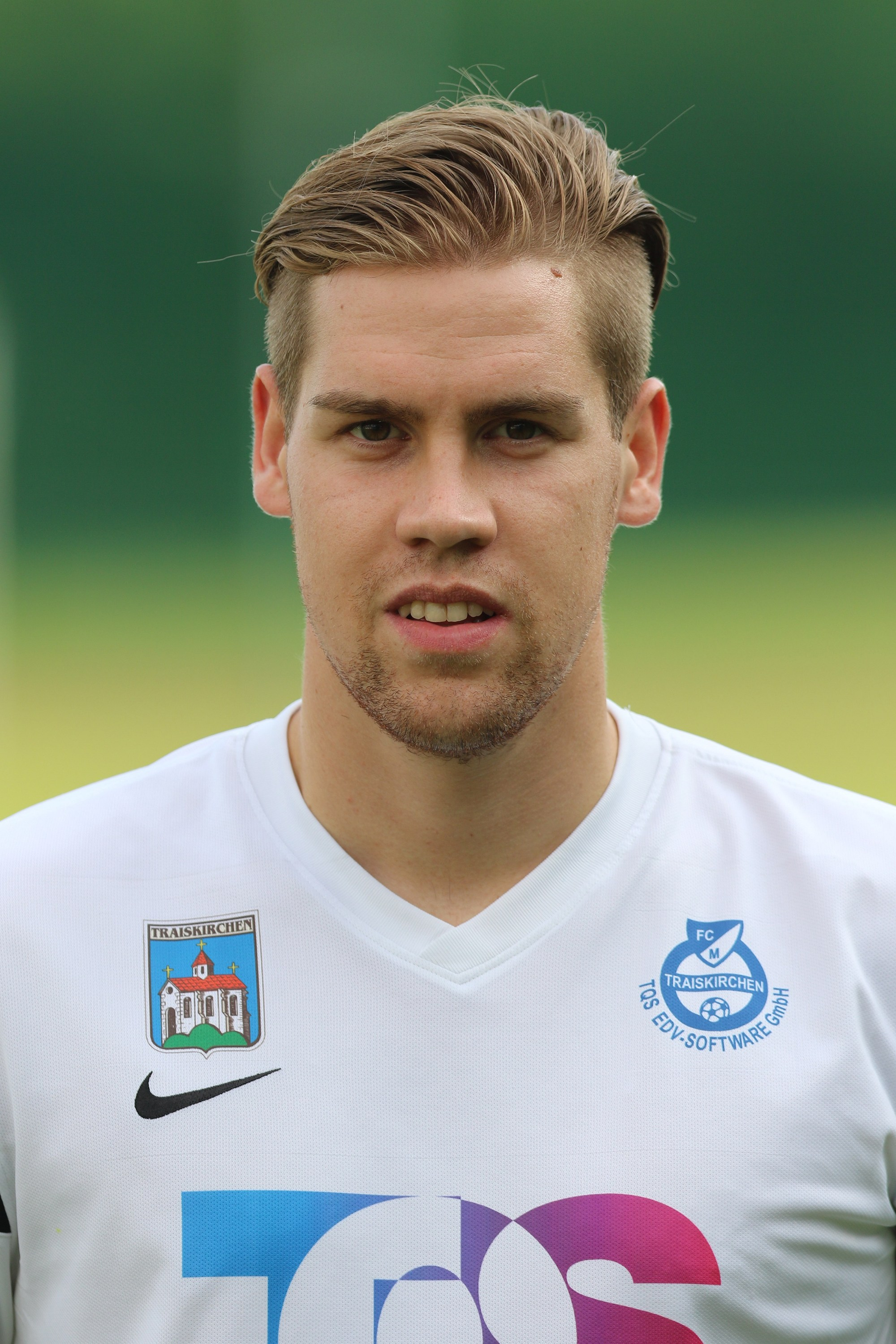 FCM Traiskirchen squad for the 2016-17 season. – The photo shows Patrick Baumeister.